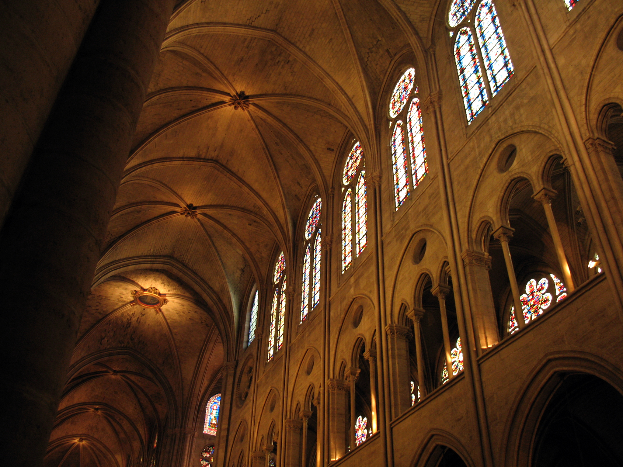 Photograph of the nave of Notre Dame de Paris, Paris, France, in January 2007.